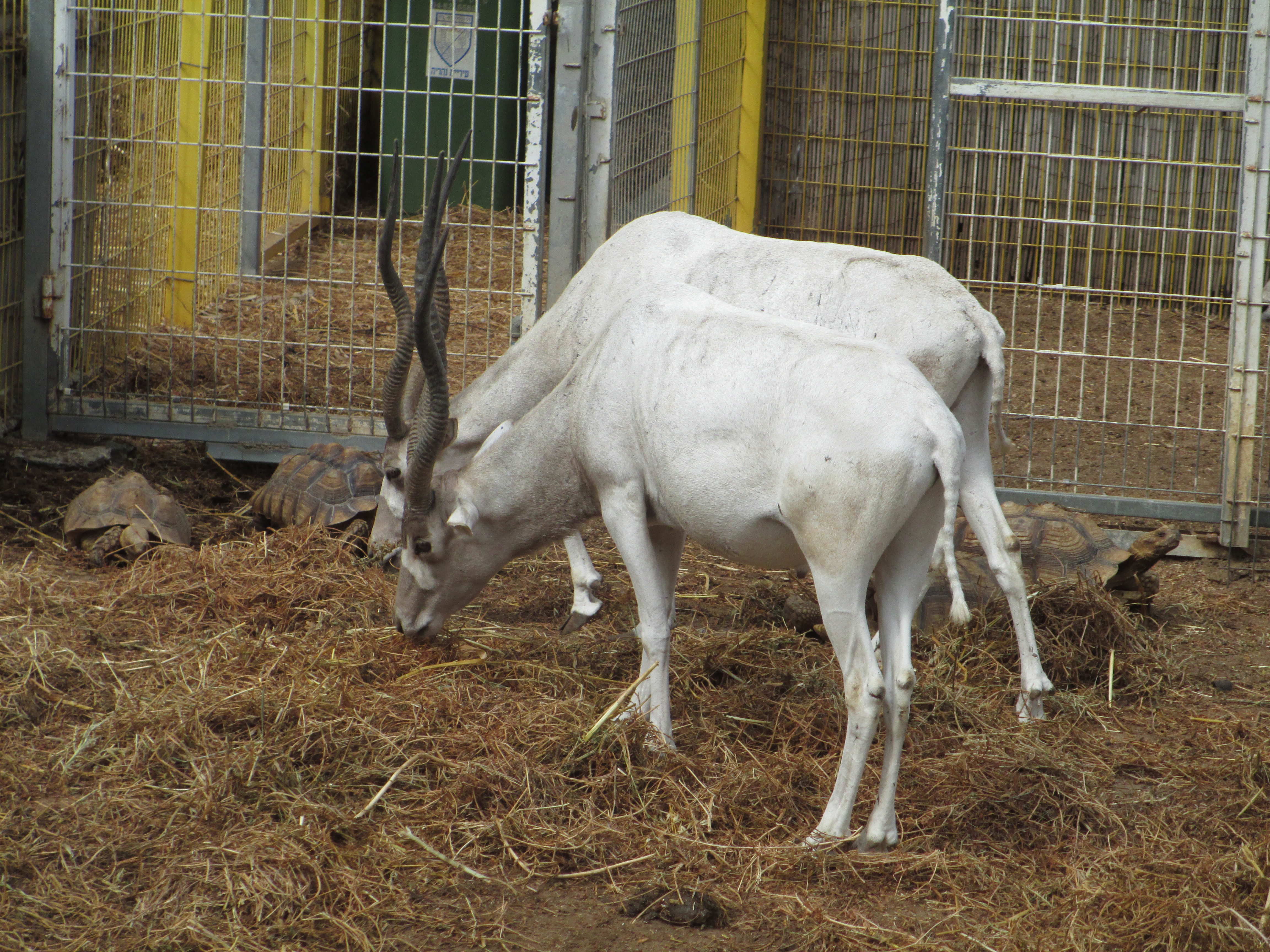 Addax in Zoo-Botanical Garden Nahariya